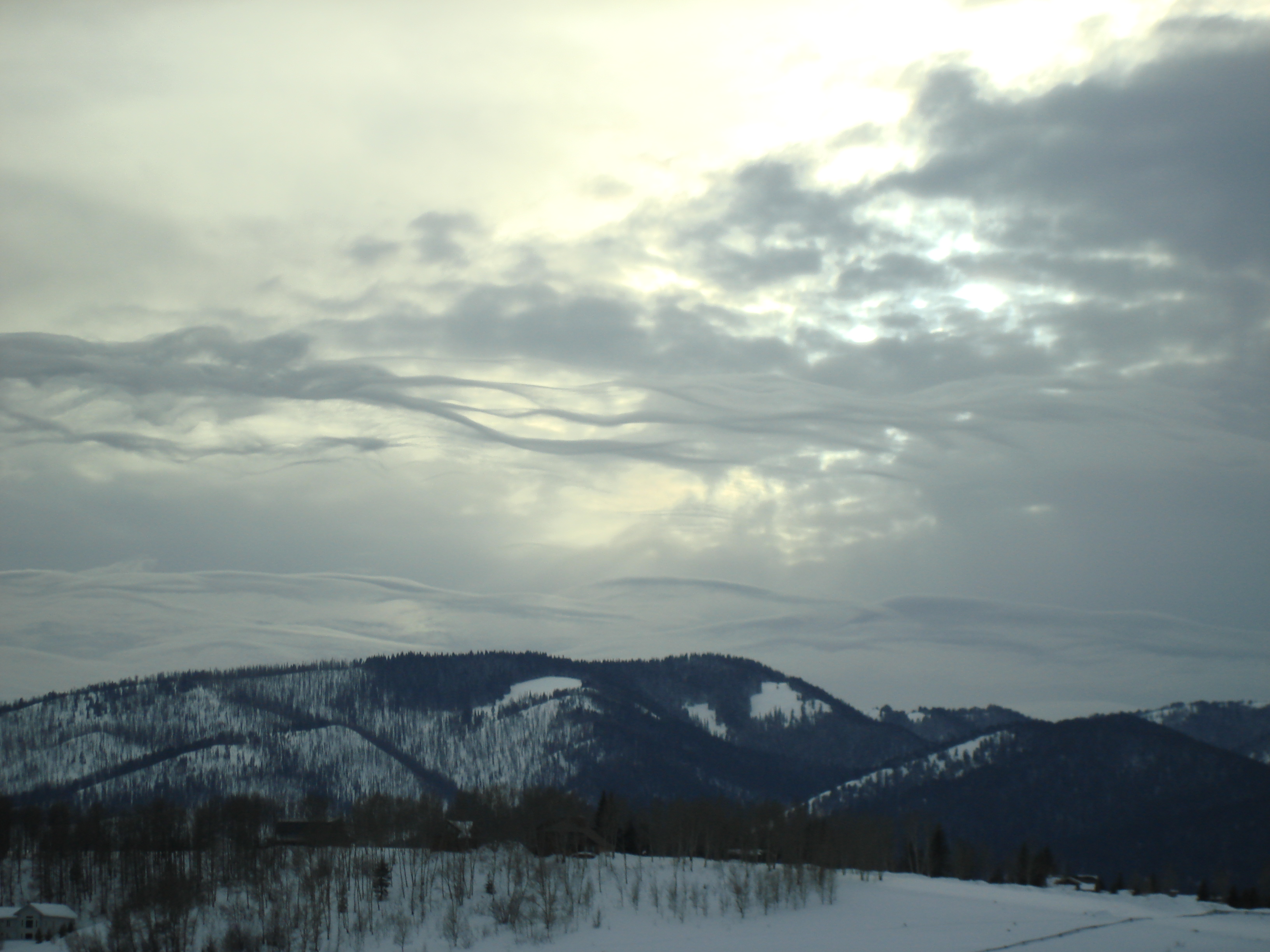 Stratocumulus lenticularis undulatus in Jackson, Wyoming.